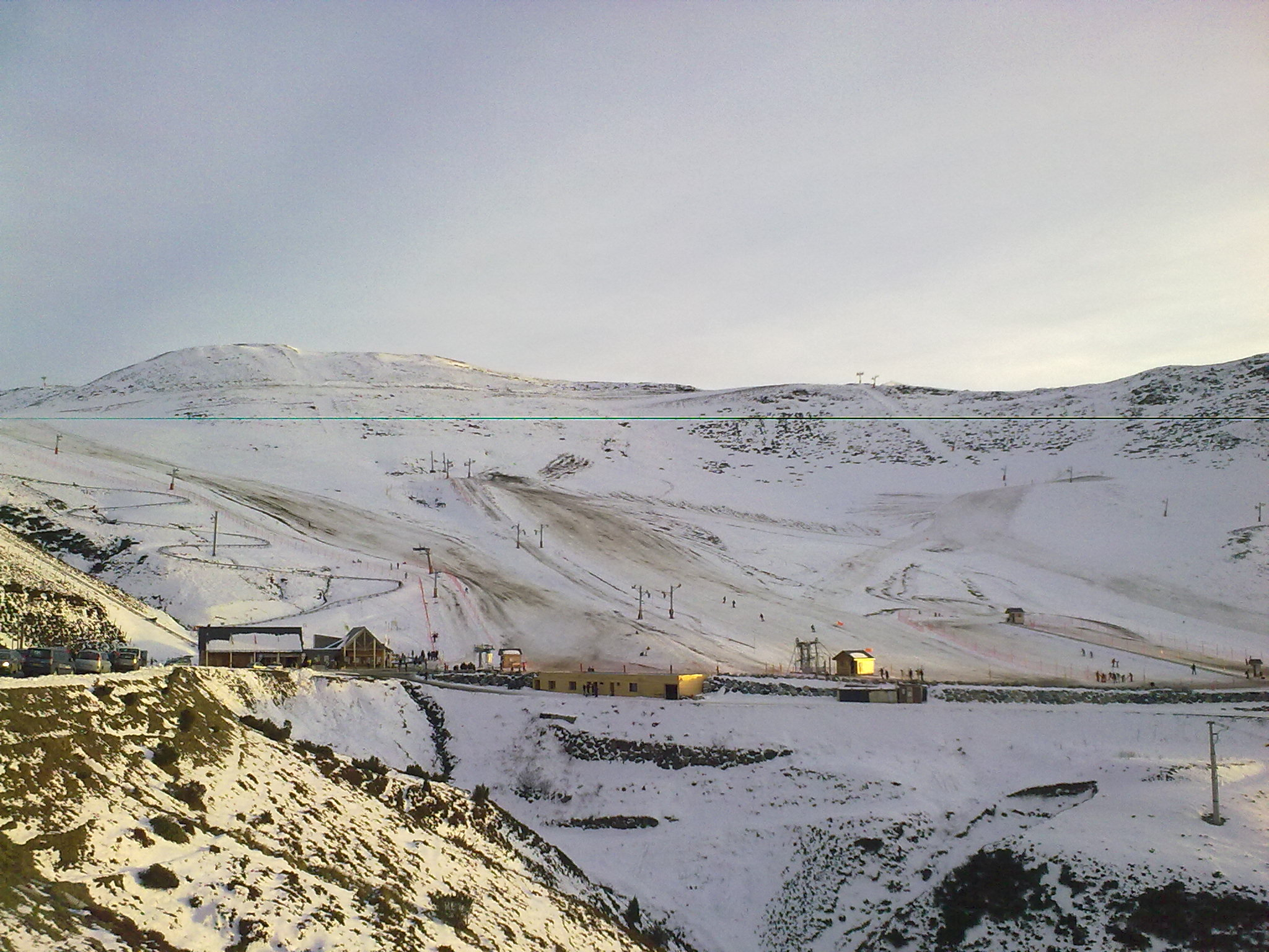 Hautacam, summer and winter station, global view, department 65 in France, next to Lourdes/Tarbes, France.